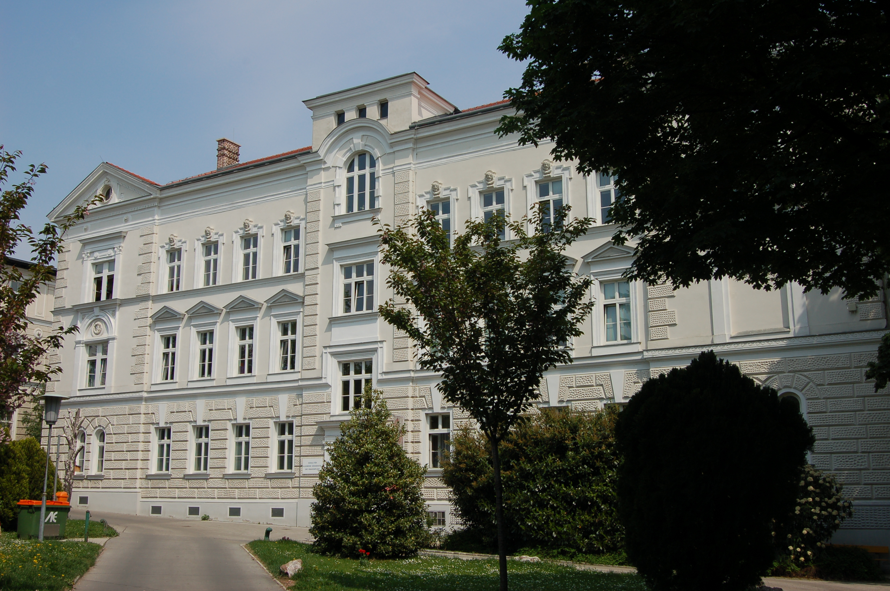 Nurses' training school in Kaiserin-Elisabeth-Spital, Vienna's 15th district